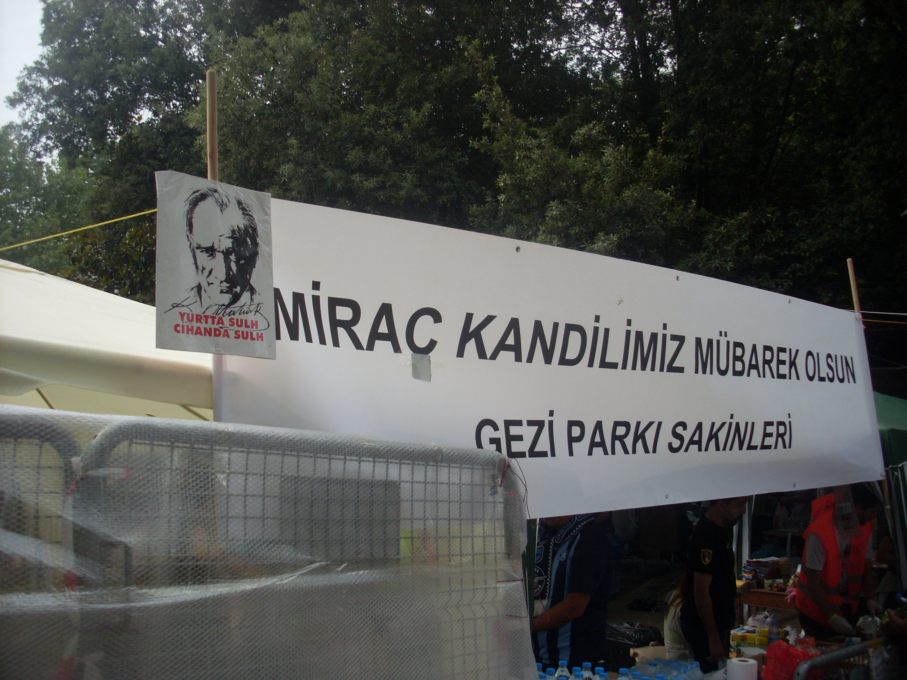 a view from Taksim Gezi Park 7th June